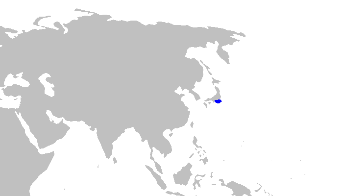 Distribution map for Scyliorhinus tokubee